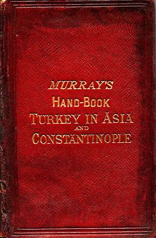 Cover of: Murray's Handbook for Travellers in Turkey in Asia including Constantinople, the Bosphorus, Dardanelles, Brousa and Plain of Troy. 2nd ed. Published by John Murray, London, 1871